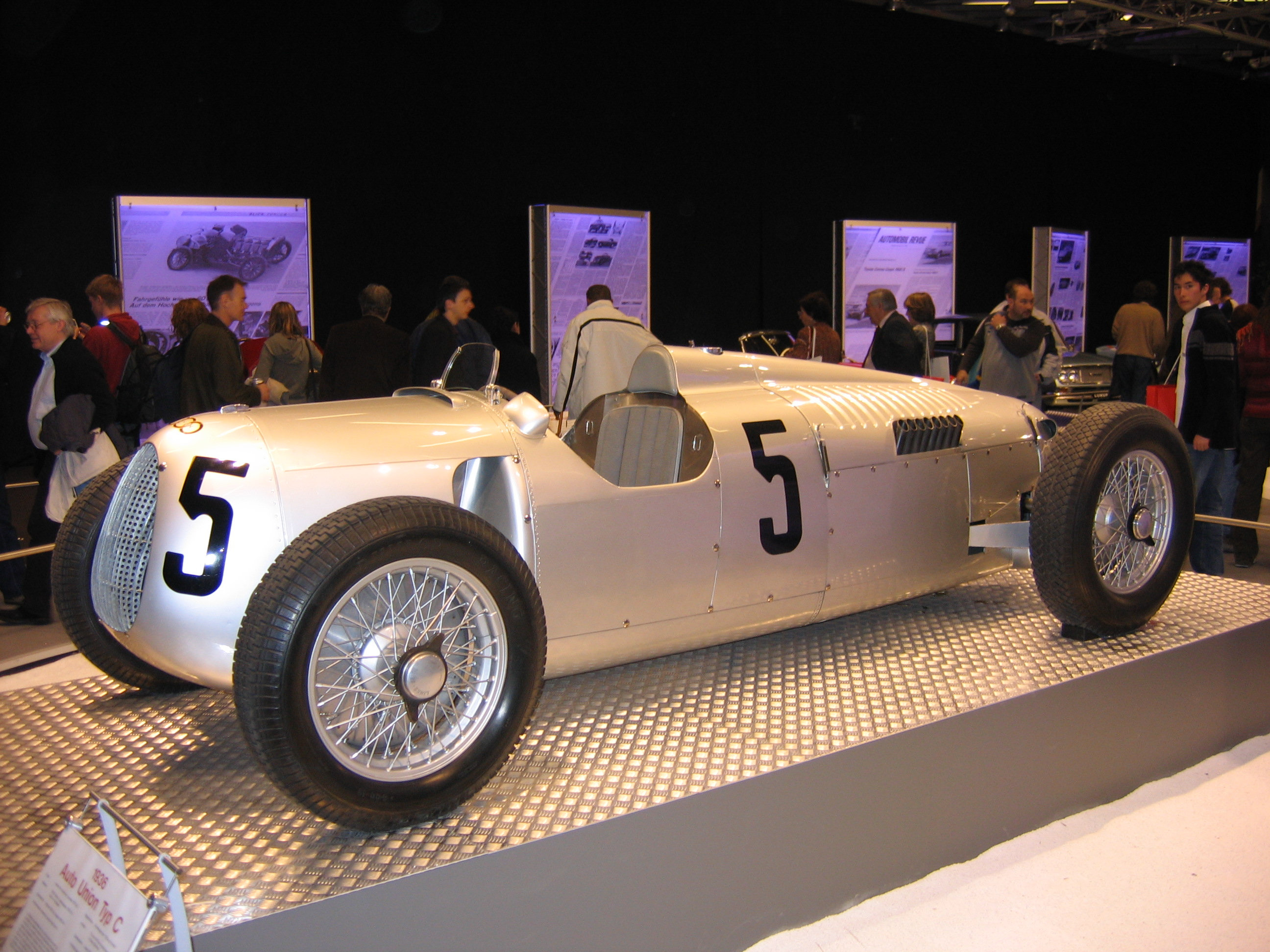 Geneva Motor Show 2006